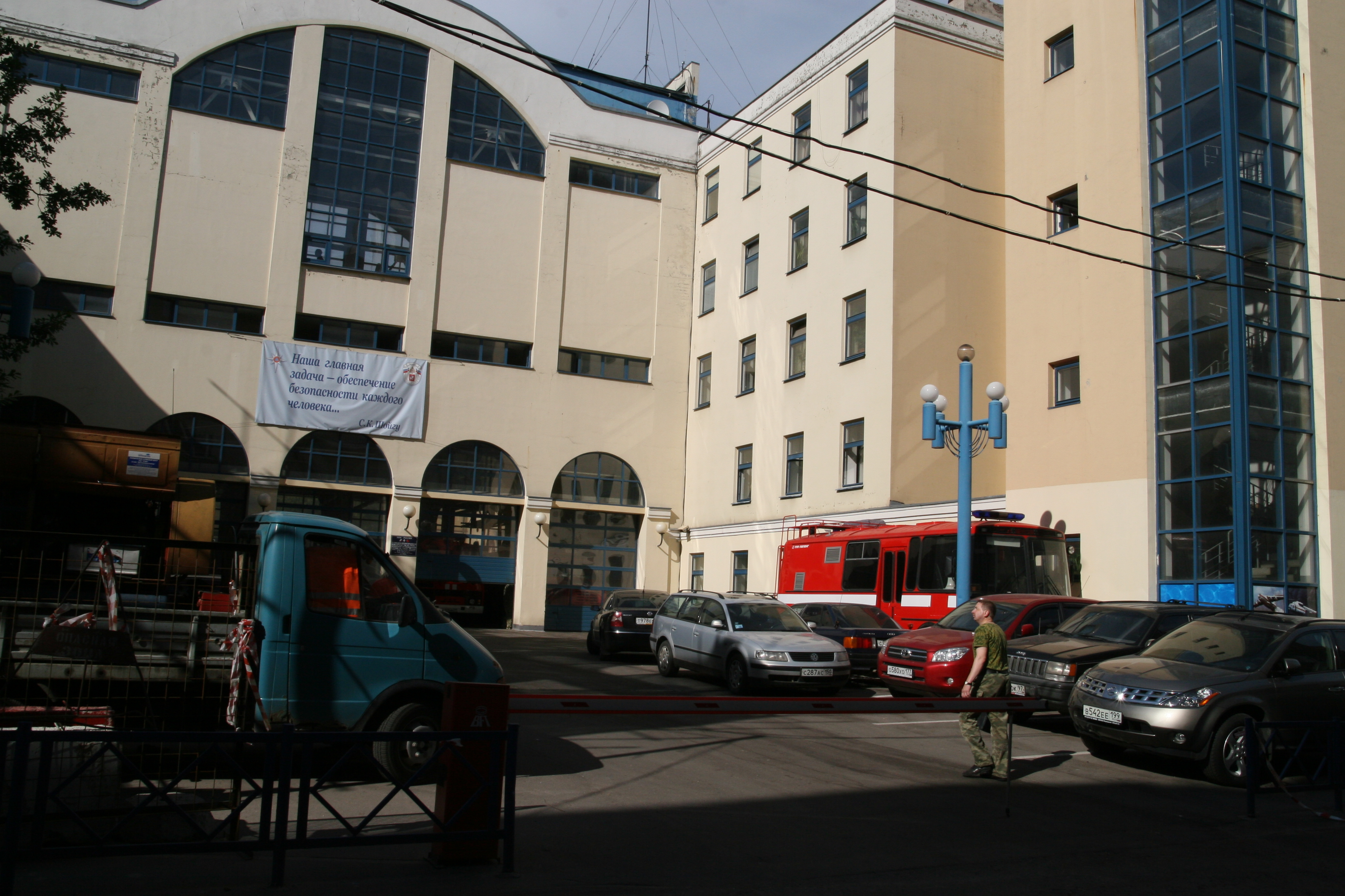 Fire